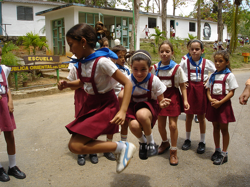 School children playing jump-rope in between classes at a Cuban elementary school. Banner appears to read: Escuela "Republica Oriental Uruguay". Image of Che Guevara on building in background.